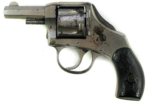 H&R Vest-Pocket Self-Cocker, old type. This image is hereby released into the Public Domain, for any and all uses.